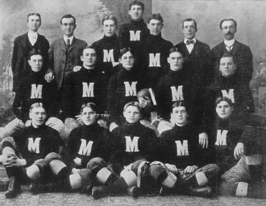 Group photograph of Morgan Athletic Club, predecessors of the Arizona Cardinals.